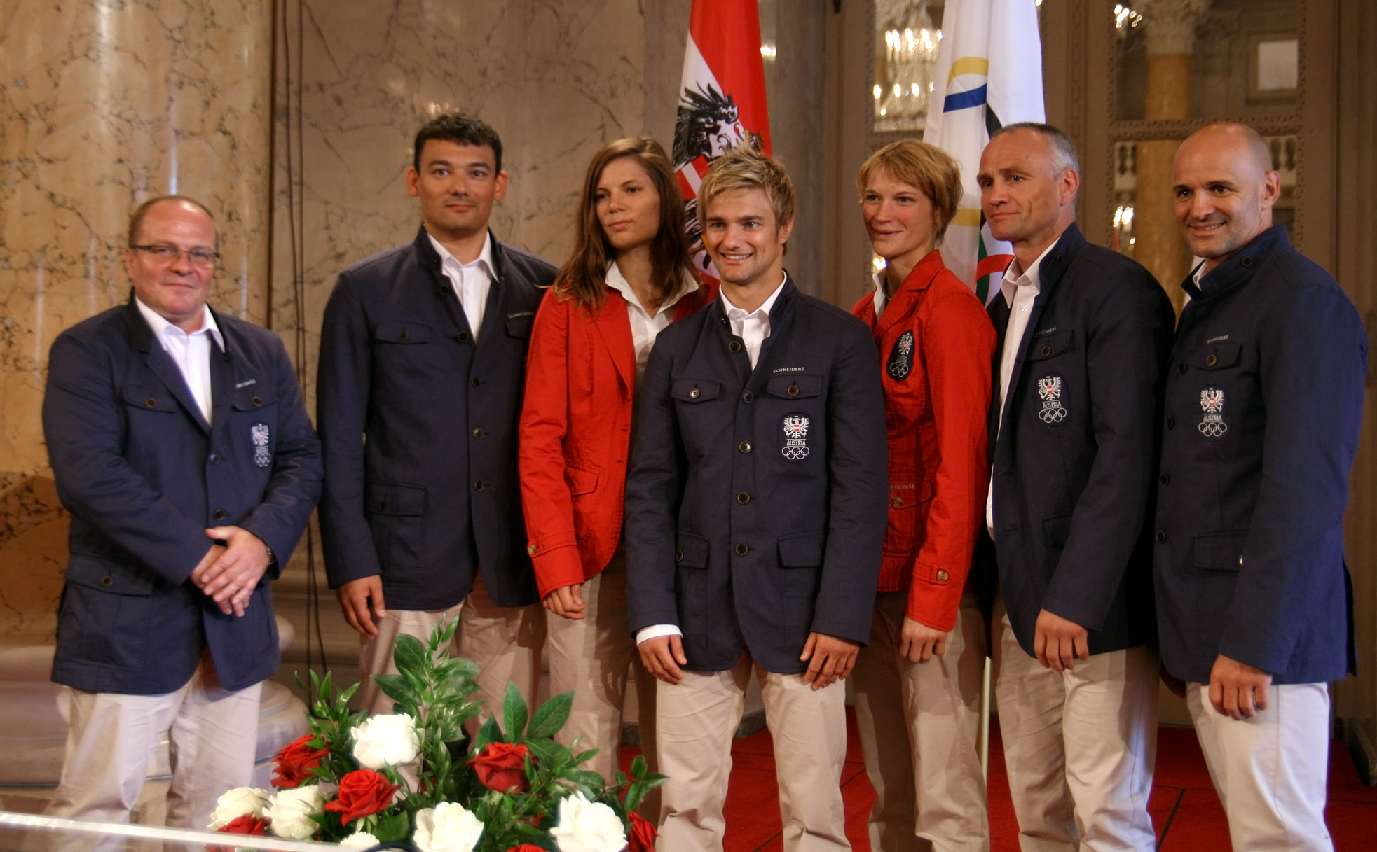 The judokas - from left: Klaus-Peter Stollberg (coach), Taro Netzer (coach), Hilde Drexler, Ludwig Paischer, Sabrina Filzmoser, Udo Quellmalz (coach) and Othmar Haag (coach) - at the official farewell of the Austrian team for the 2012 Summer Olympics in London at the ceremonial hall of Hofburg Palace in Vienna.